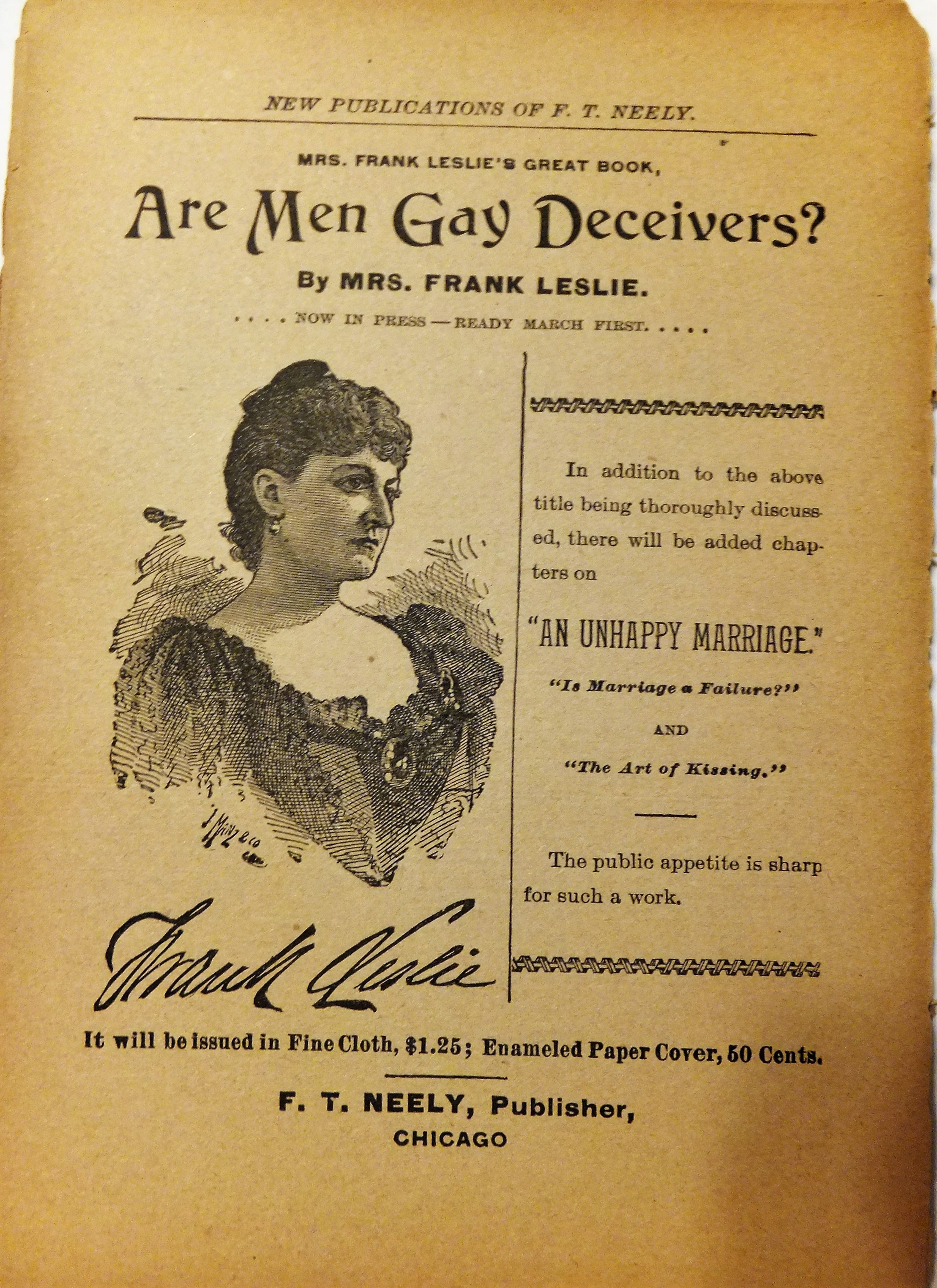 Advertisement says book also includes "An Unhappy Marriage," "Is Marriage a Failure?," and "The Art of Kissing." Fine Cloth $1.25; Enameled paper cover, 50 cents.